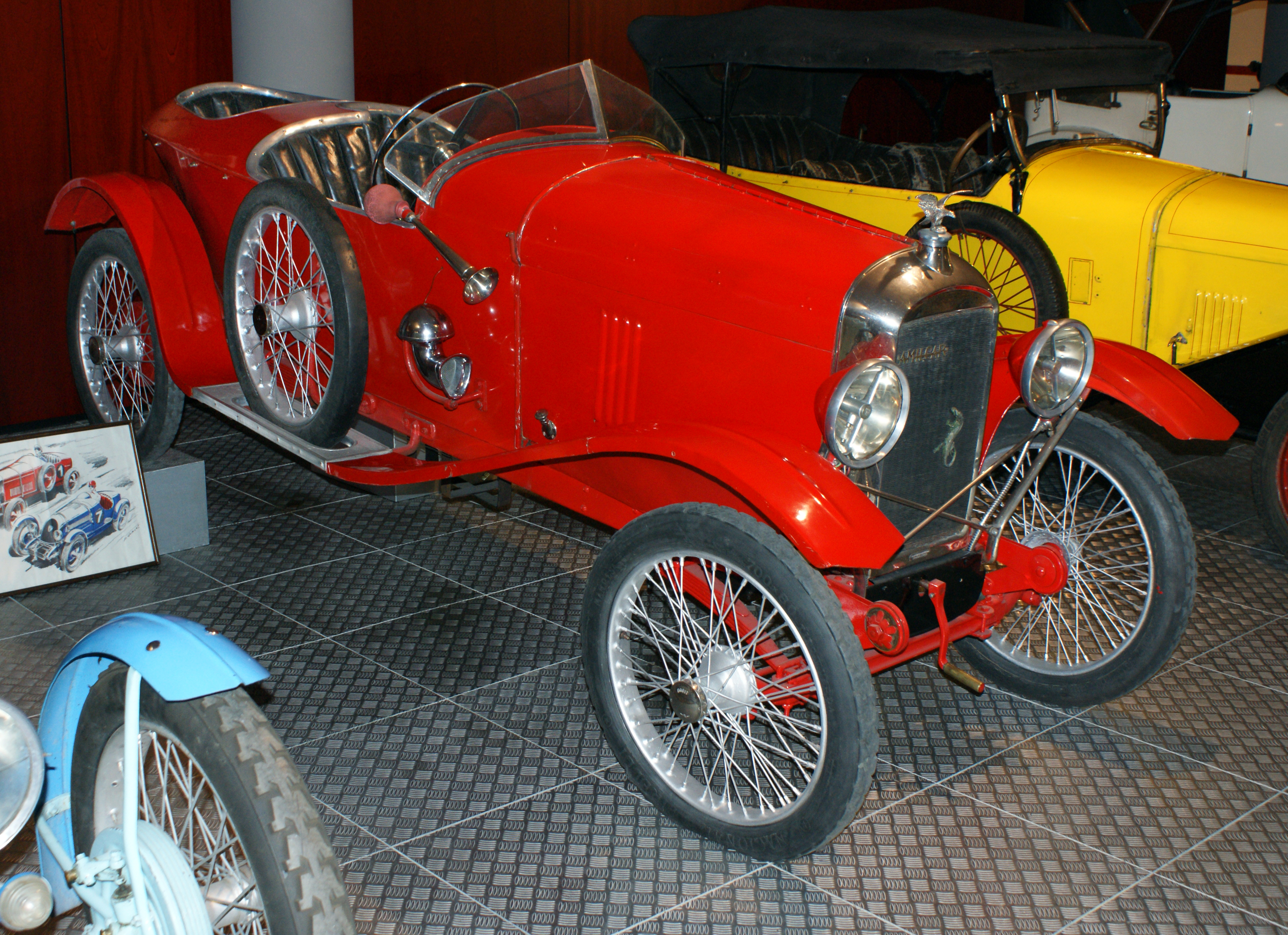 1925 Amilcar CS 1 litre at the Salamanca Motor Museum, 04/08.